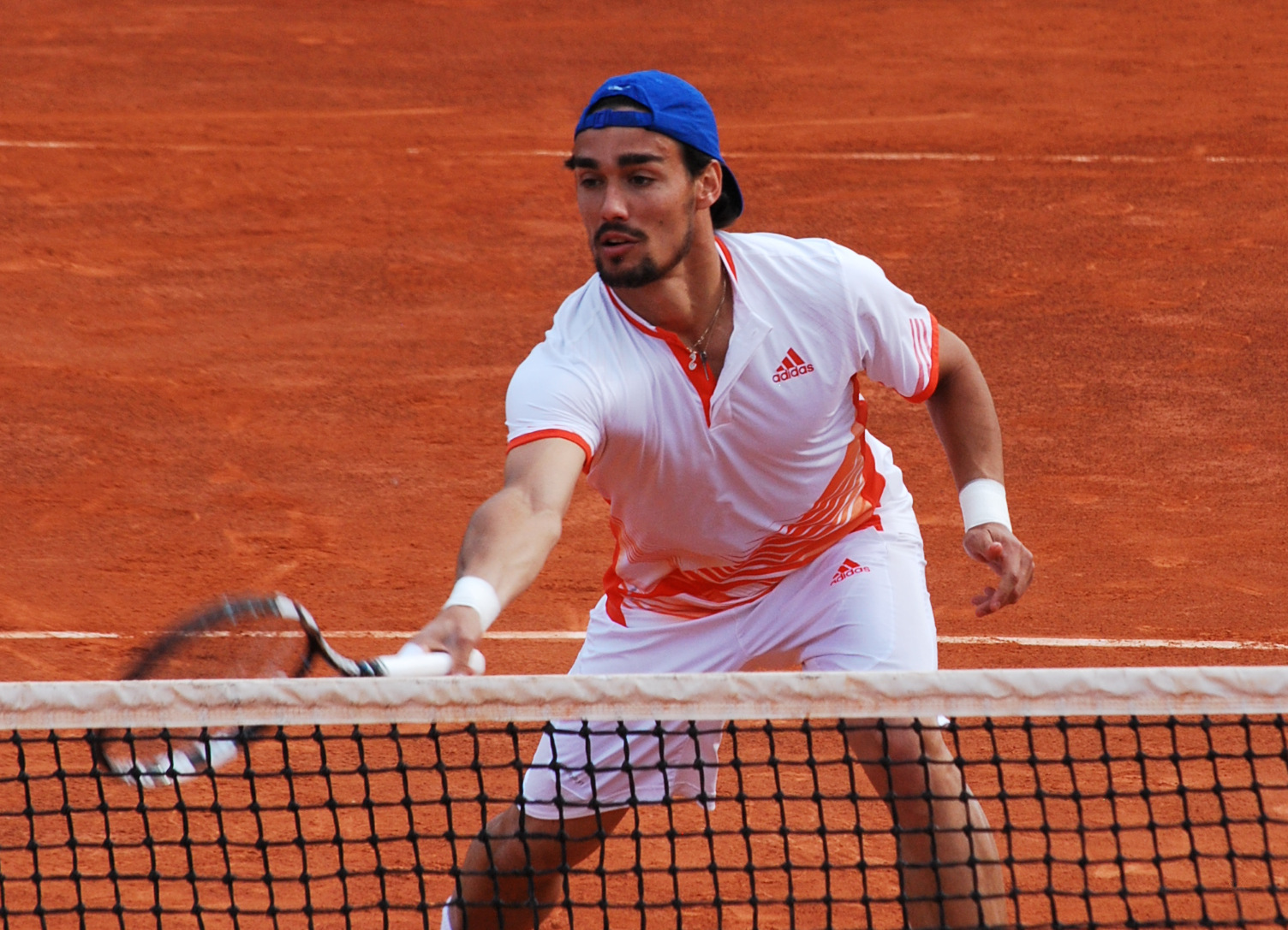 Fabio Fognini during his first round match with Simone Bolelli against Leander Paes & Alexander Peya. Paes & Peya won 6-1, 6-7, 6-3. Day 5 of Roland Garros 2012.